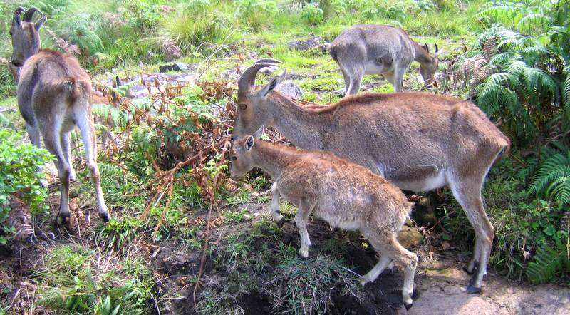 Nilgiri Tahr is a variety of mountain deer inhabiting the hills of Munnar.